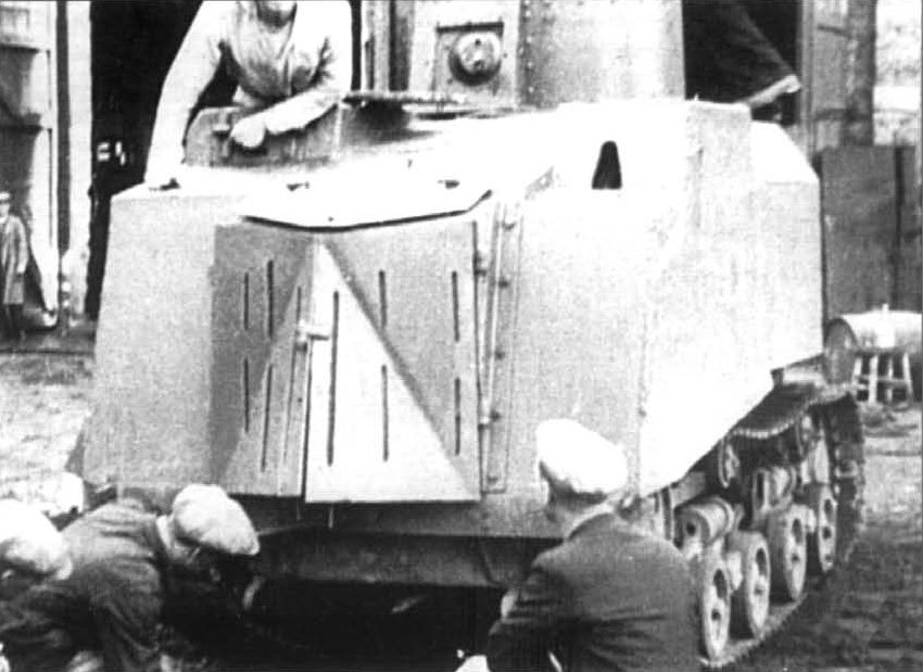 Early variation of the STZ-5 armored tractor "Tank NI". Odessa, Ukraine. August 20th, 1941.